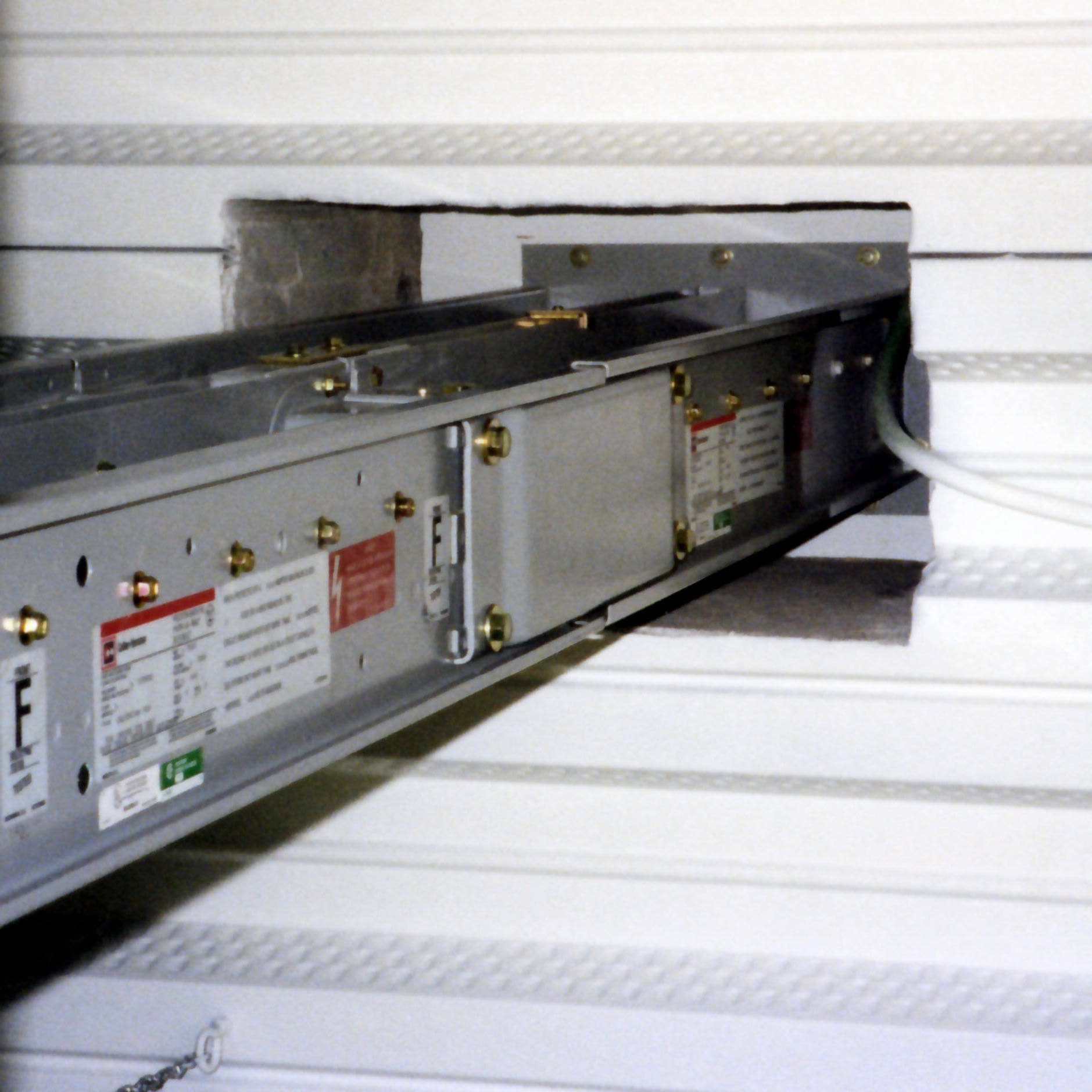 Bus duct penetration, awaiting firestop.